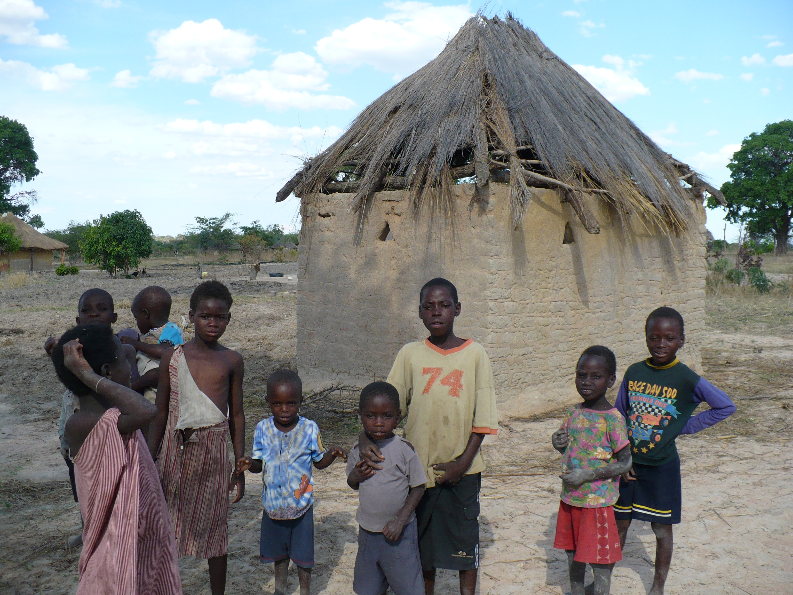 Zambian kids in the rural area